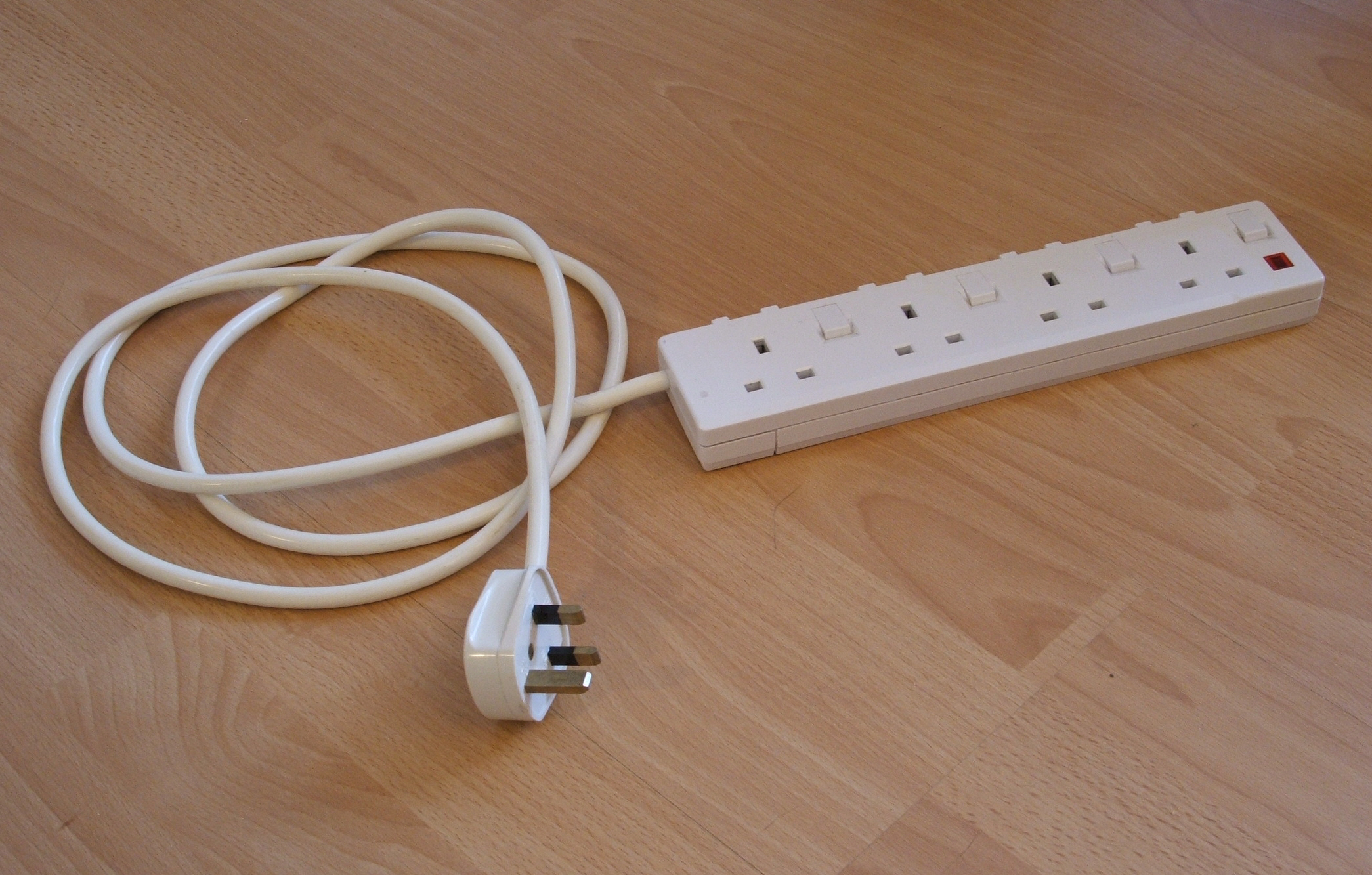 An extension lead/multiplug